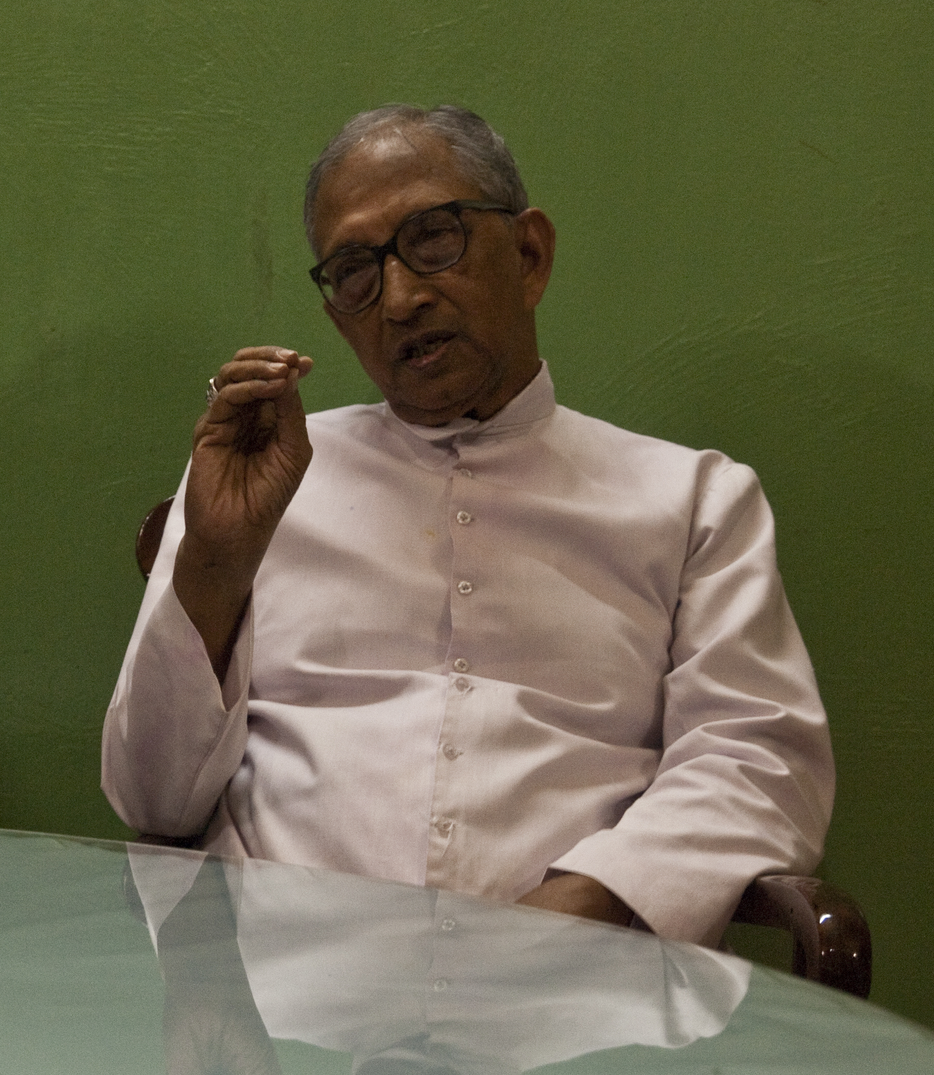 Archbishop Mar Joseph Powathil discusses the state of the church in India during a conversation with Fellows of the Wabash Pastoral Leadership Program in October of 2010.